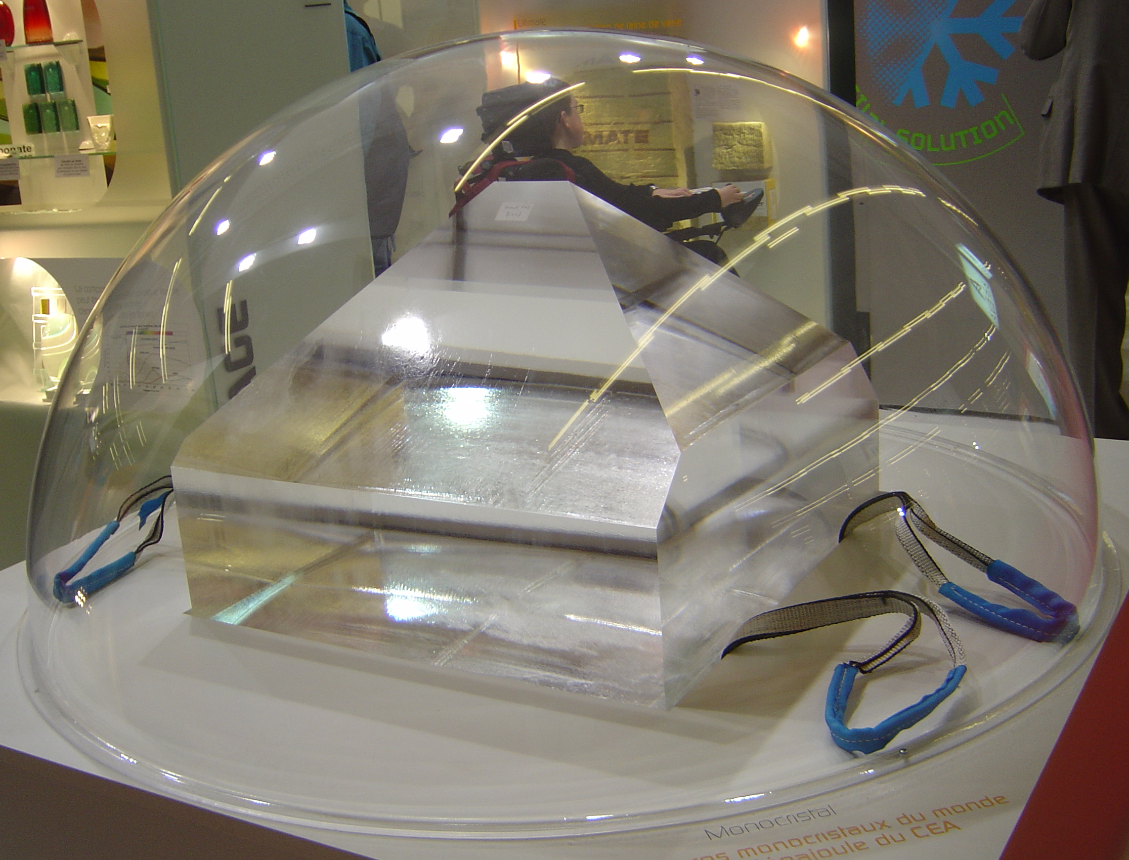 One of the largest monocrystals (KH2PO4) in the world, grown by Saint-Gobain for CEA June 5, 2005, Salon Européen de la Recherche et de l'Innovation